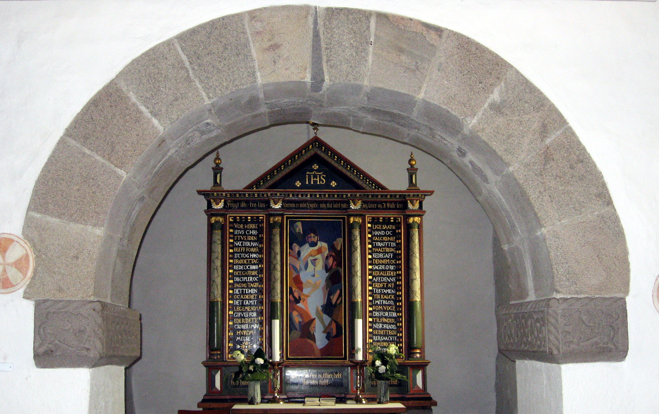 Hasle Kirke in Hasle, Århus, Denmark. Chancel arch and altar piece.